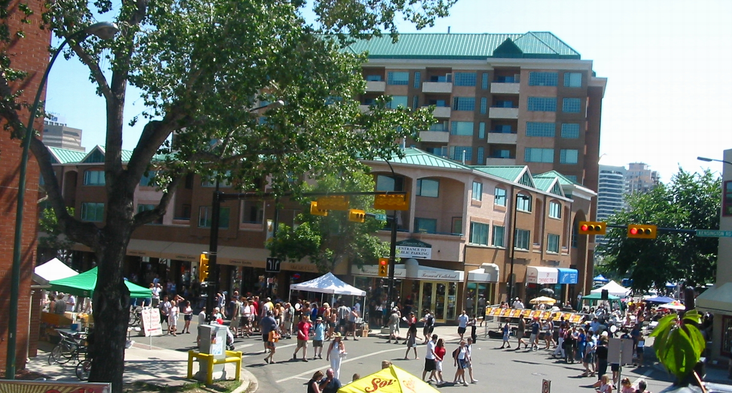 Neighbourhood of Kensington during the Sun and Salsa Festival 2004, in Calgary, Alberta, Canada